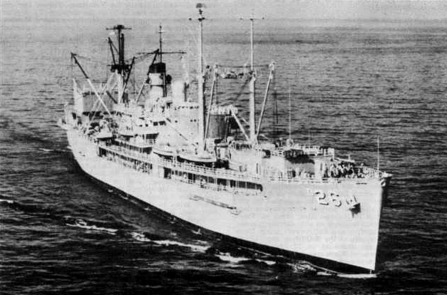 The U.S. Navy destroyer tender USS Shenandoah (AD-26) off Italy, July 1973. Since her construction, she had had additional superstructures installed forward and aft. The Klondike-class destroyer tenders were a U.S. Navy adaptation of the Maritime Commission's C3 fast cargo ship design.